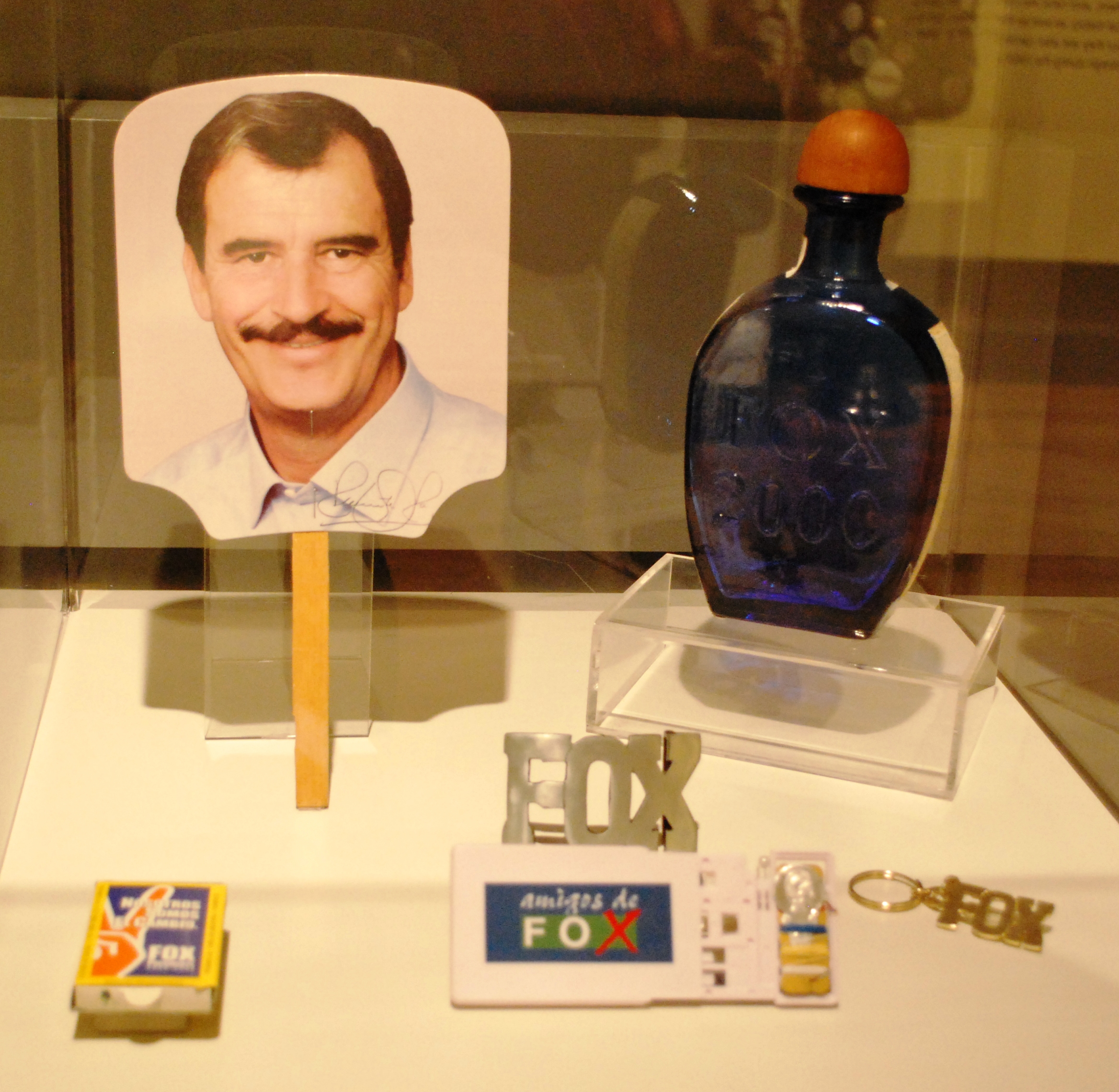 Items from Vicente Fox's presidential campaign on display at MODO